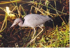 Little Blue Heron hunting for food. Picture taken on Anhinga Trail, Everglades National Park.